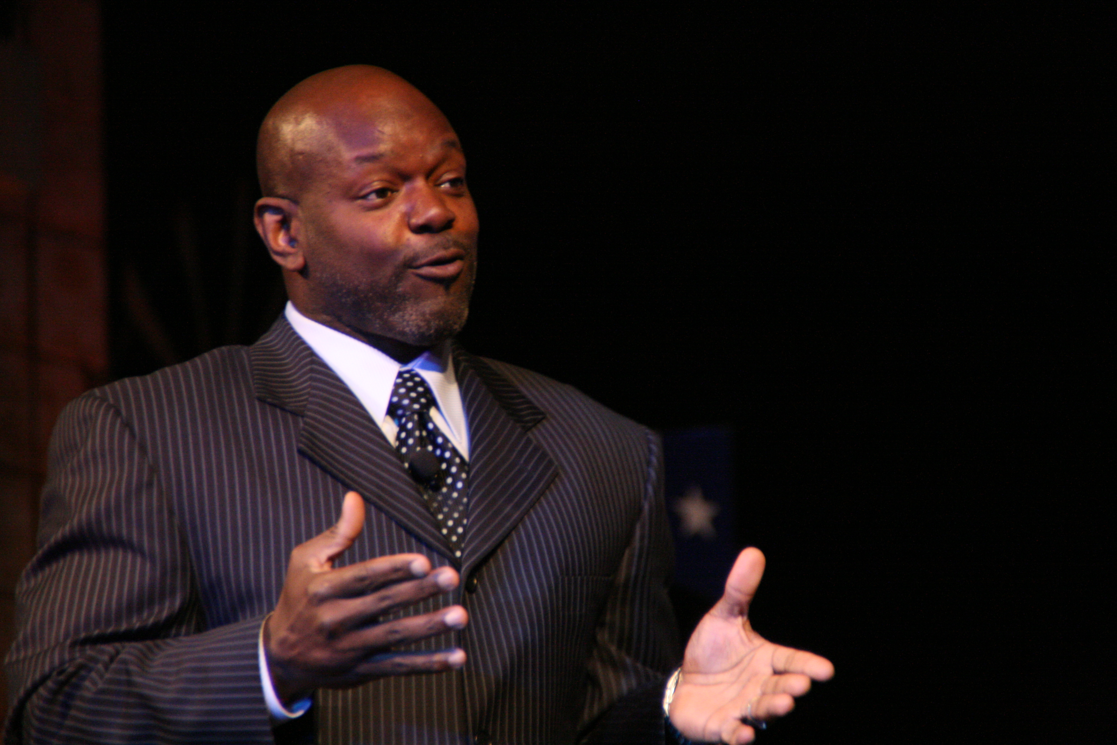 Retired National Football League star Emmitt Smith.